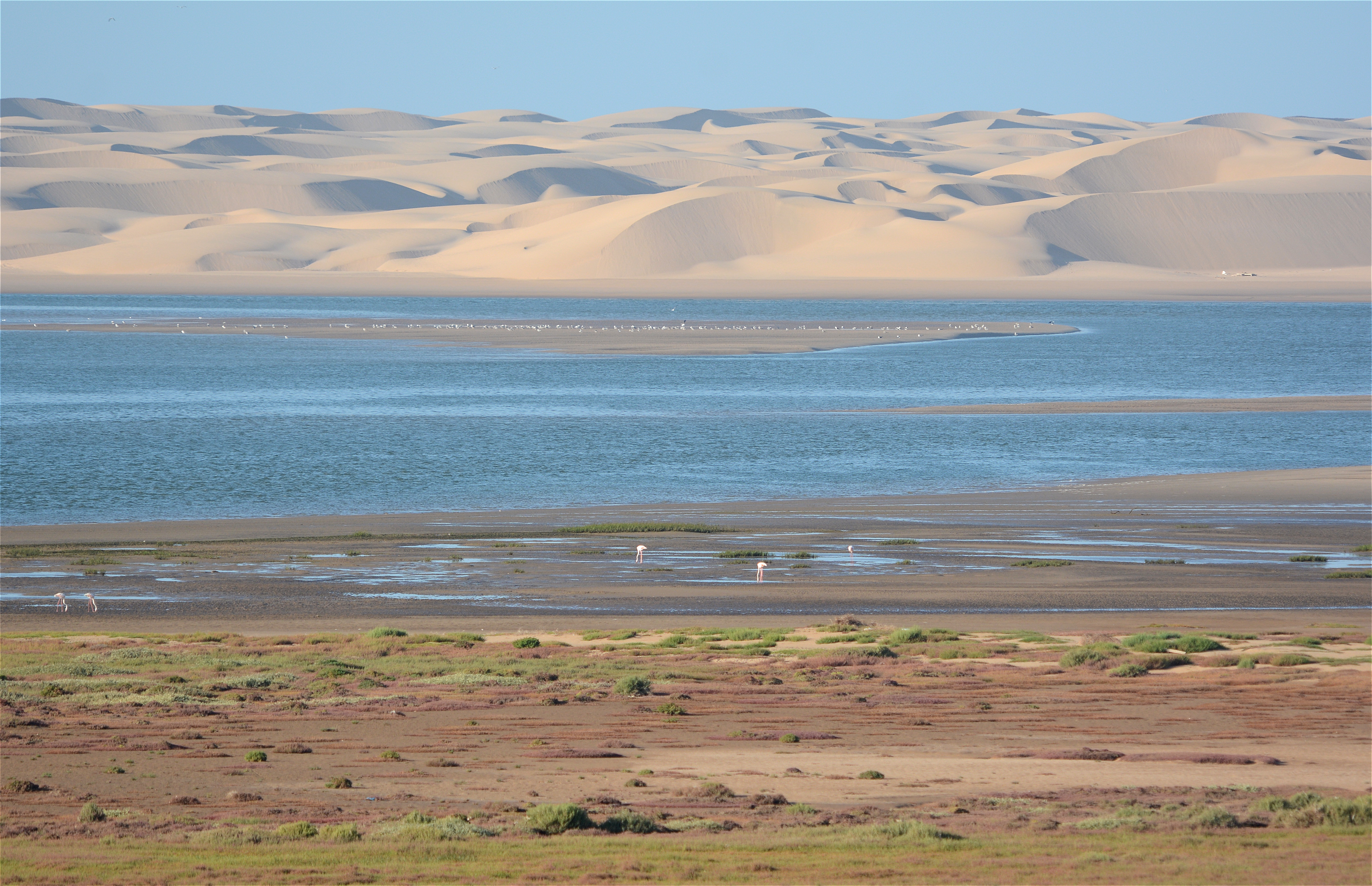 Khenifiss National Park near Tarfaya, Morocco.